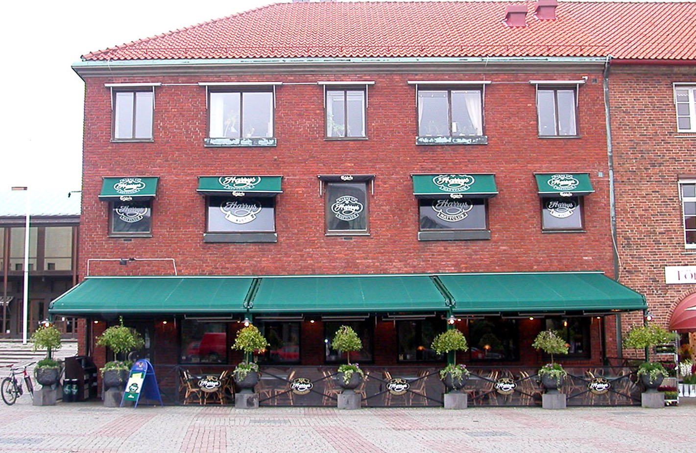 Harrys Pub, Falkenberg, Sverige.